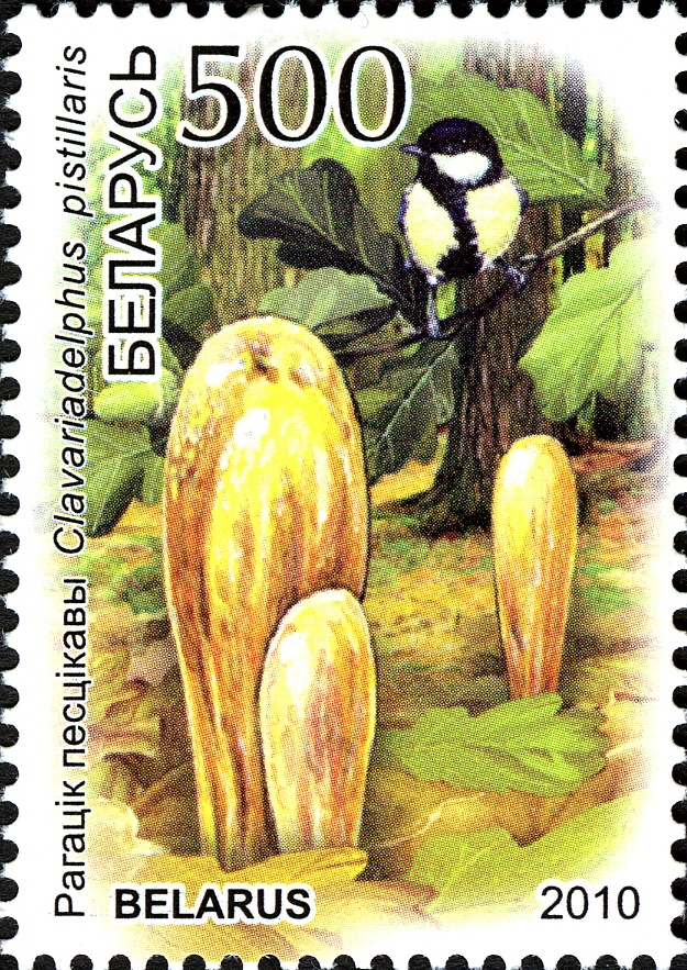 Stamp of Belarus